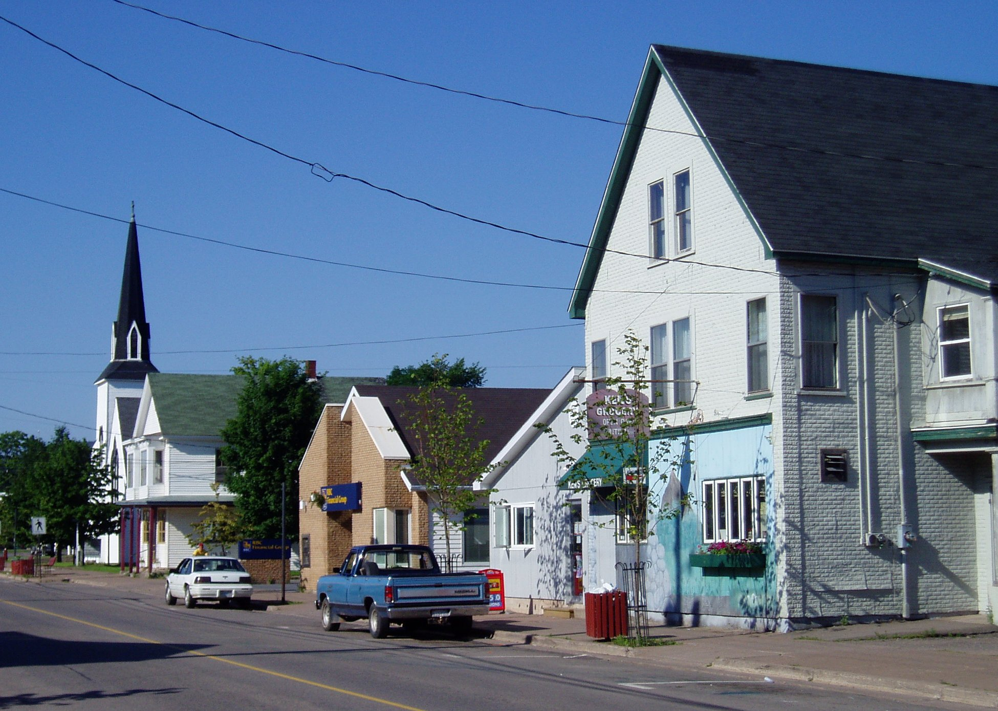 Main street of Parrsboro, Nova Scotia. Taken by SimonP